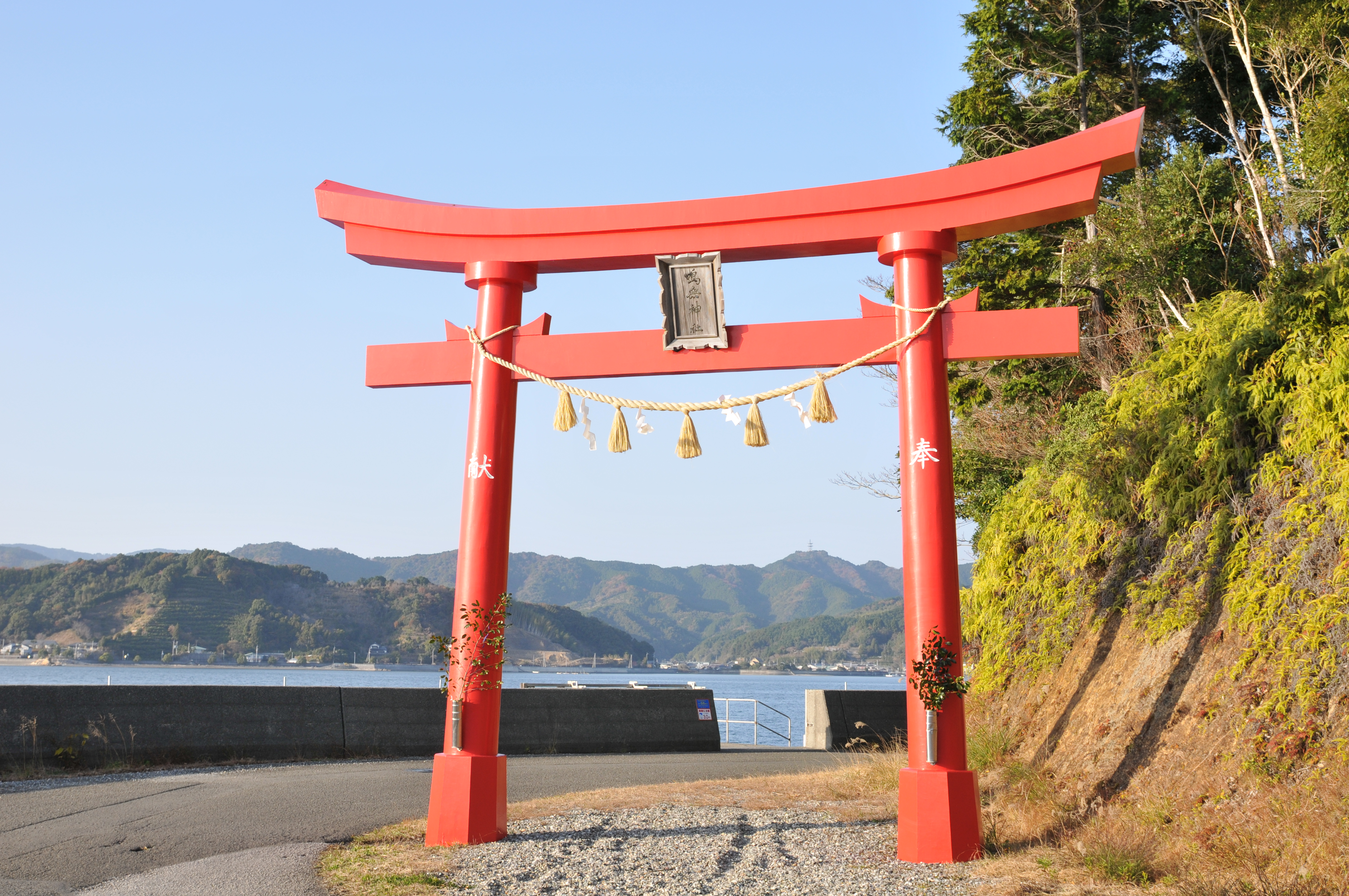 Grand torii, Otonashi-jinja